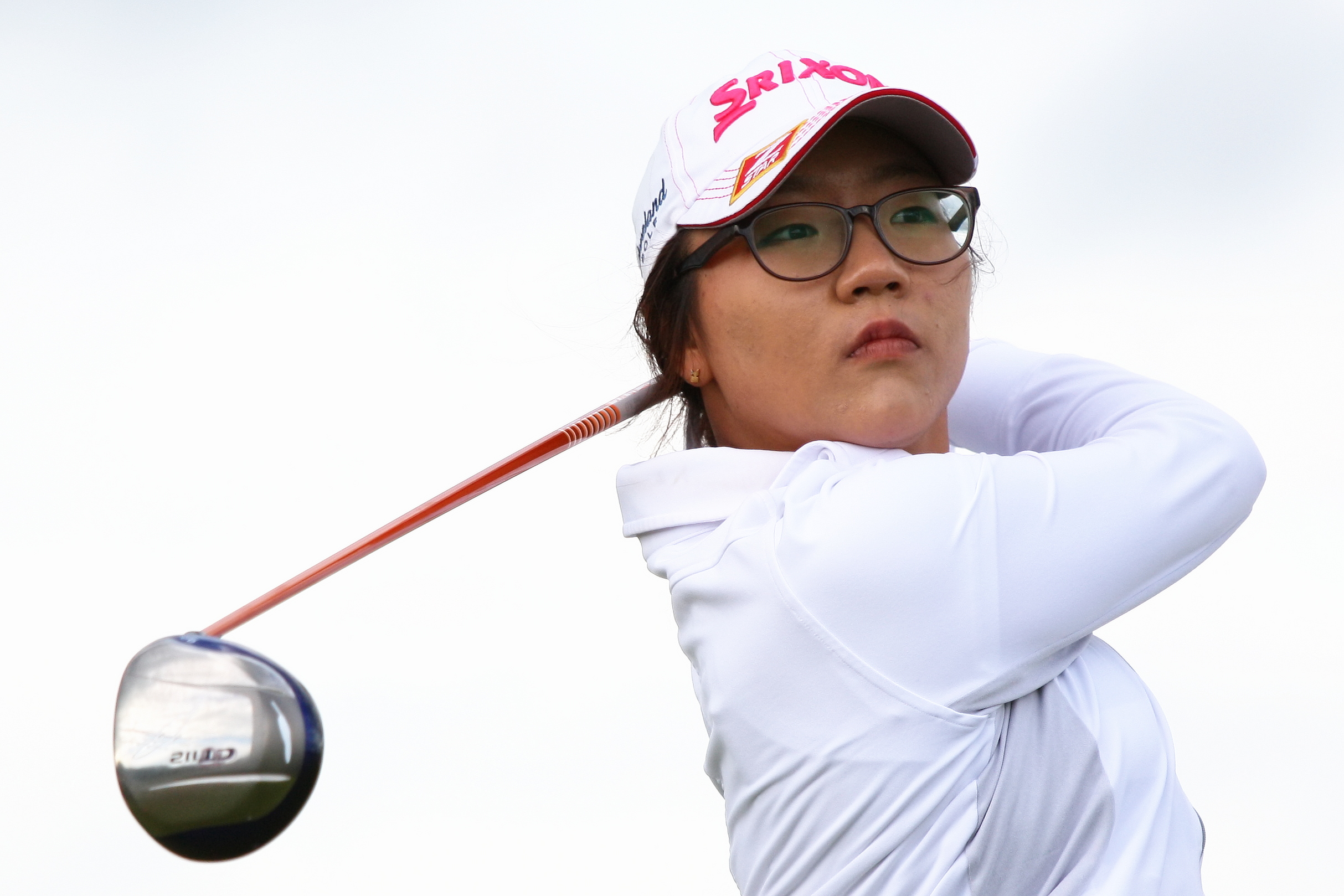 ST ANDREWS, SCOTLAND – JULY 30: Lydia Ko of New Zealand watches her tee shot on 15th hole during pro-am round of 2013 Ricoh Women's British Open held at St Andrews Old Course on July 30, 2013 in St Andrews, Scotland. (Photo by Wojciech Migda)